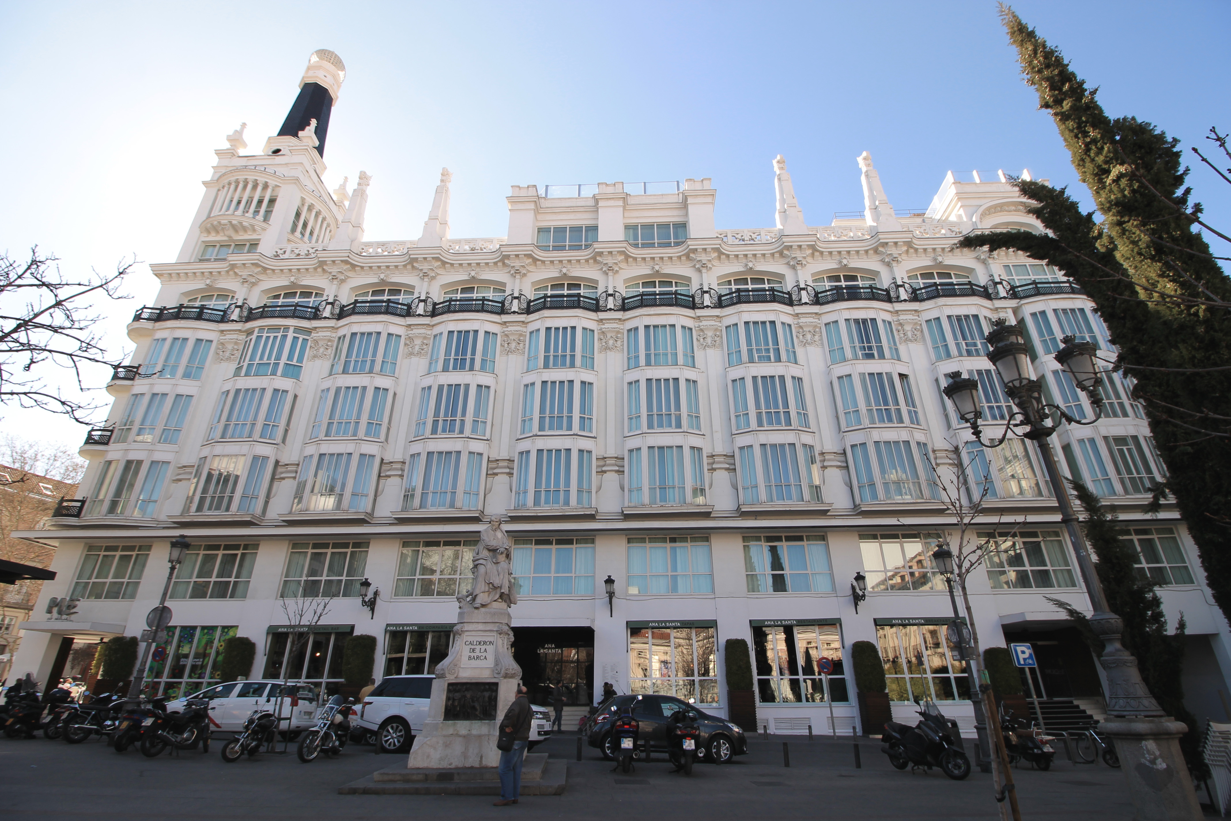 East façade of ME Reina Victoria hotel in Madrid (Spain).